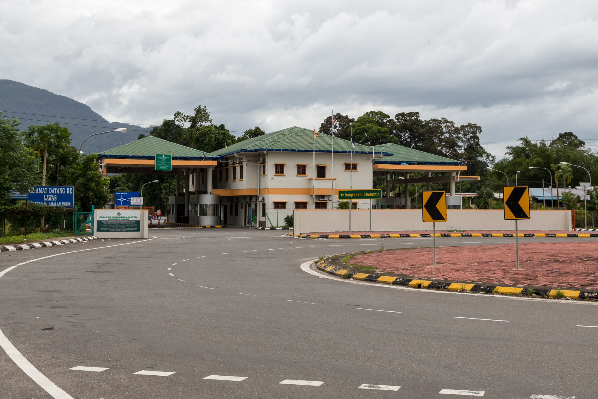 Sindumin, Sabah: Frontier to Sarawak, Immigration office and passport control